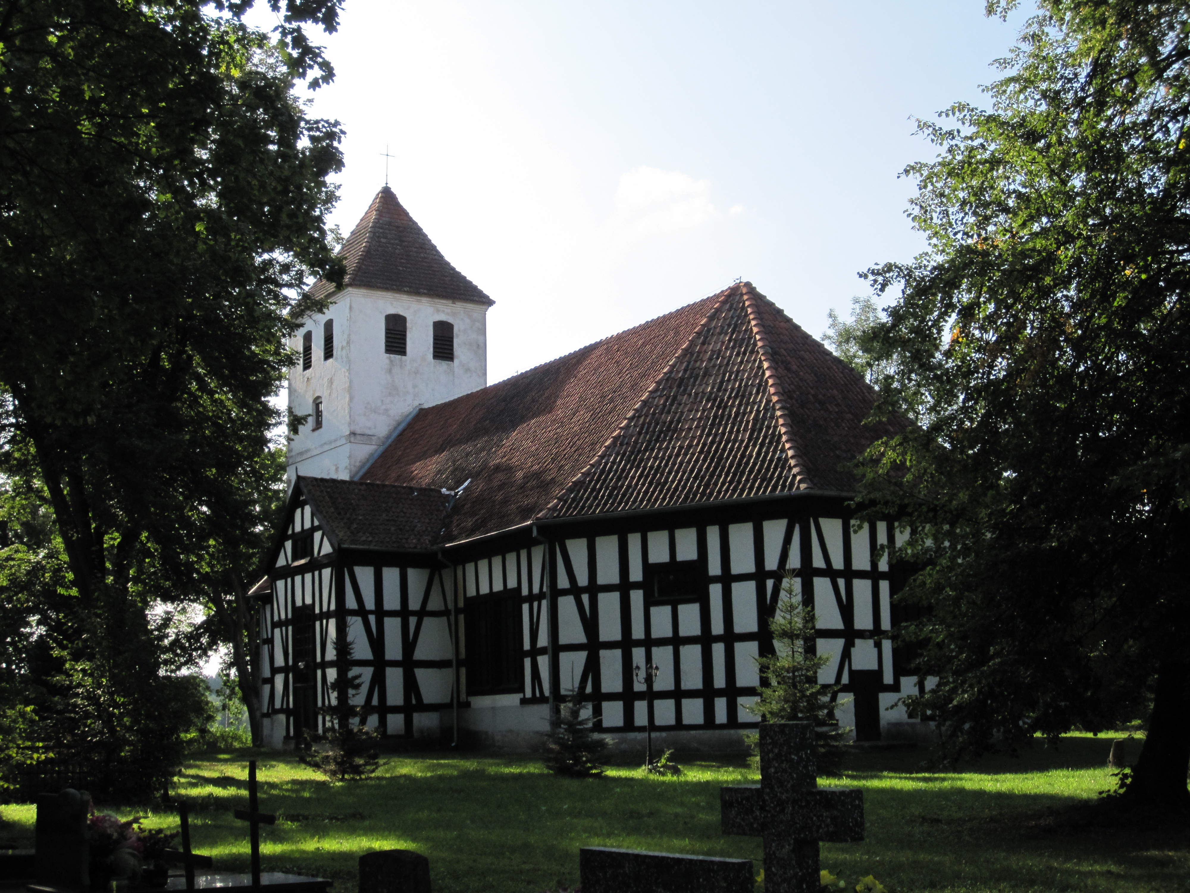 Maximilian Kolbe church in Jerutki